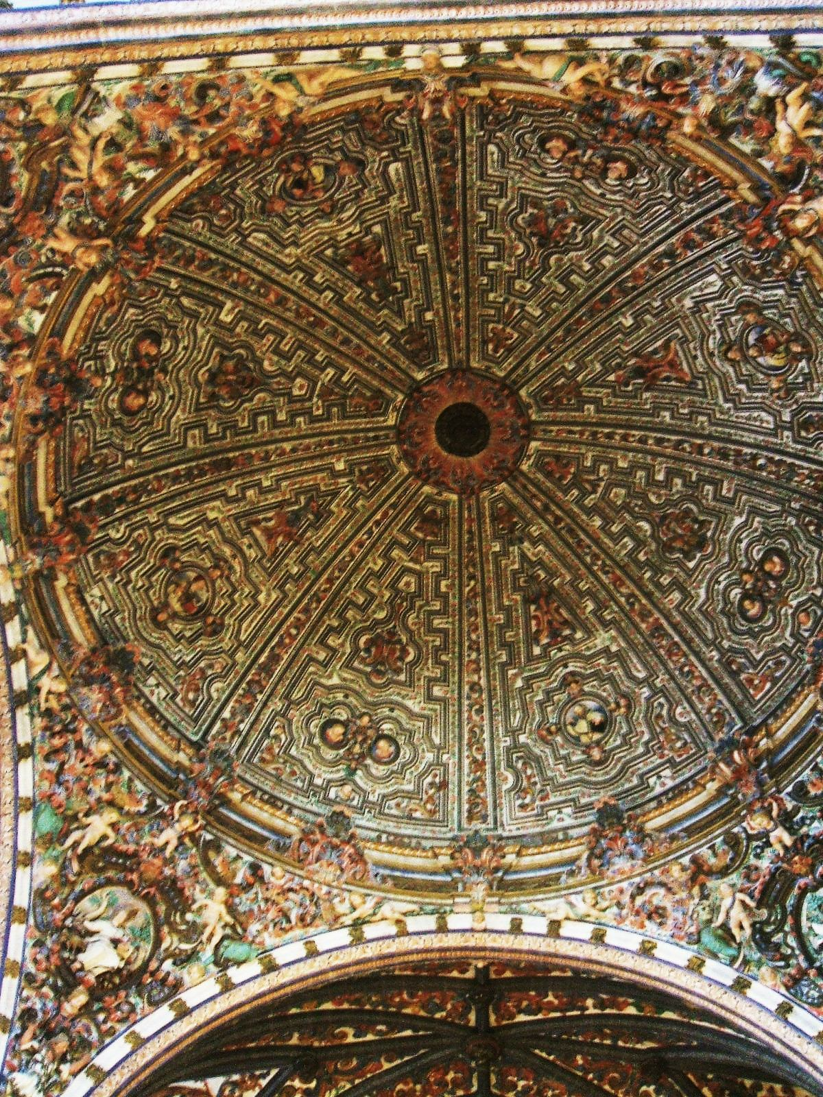 Cúpula de la Capilla de Santa Tecla, Catedral de Burgos, España